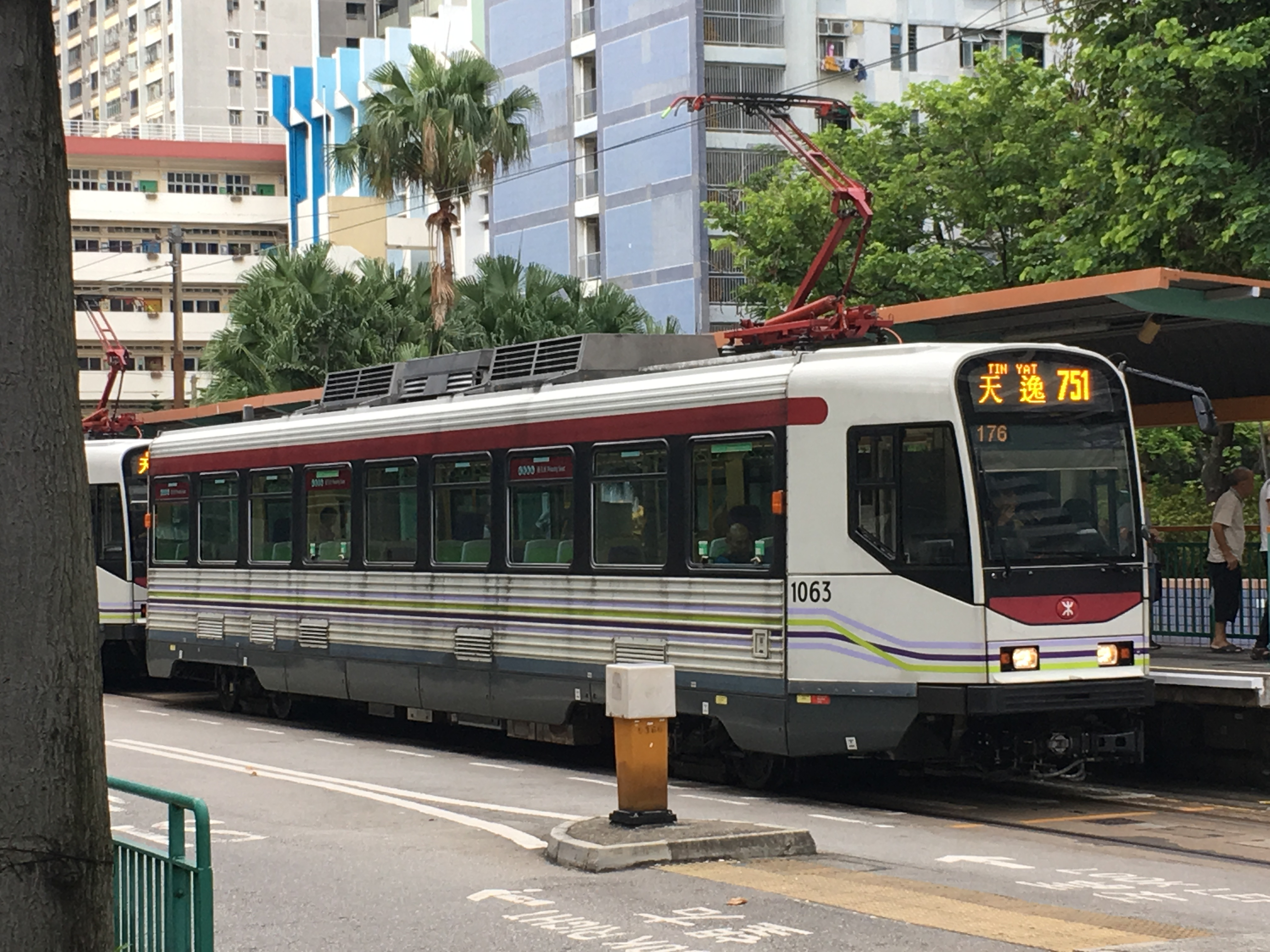 中文（香港）: This photo is taken in Yau Oi.